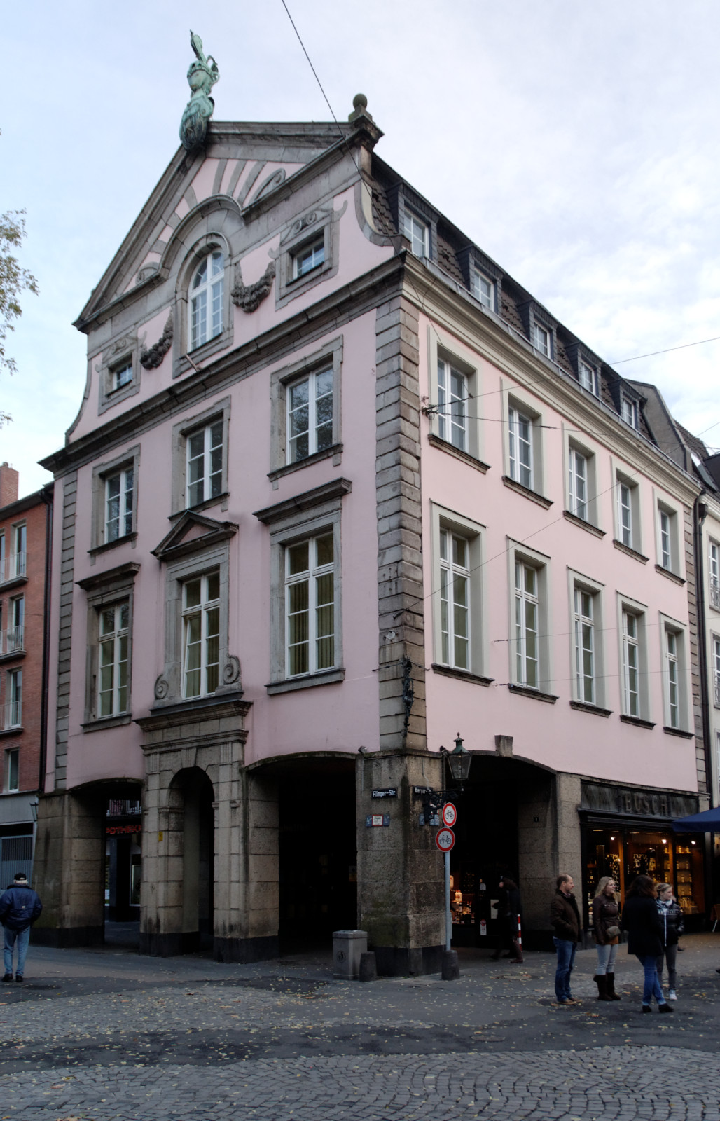 House Flinger Straße 1 in Düsseldorf-Altstadt, Germany